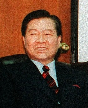 김대중. South Korean President Kim Dae-Jung and U.S. Ambassador to Korea Steven Bosworth receive a briefing from a member of the Combined Forces Command.